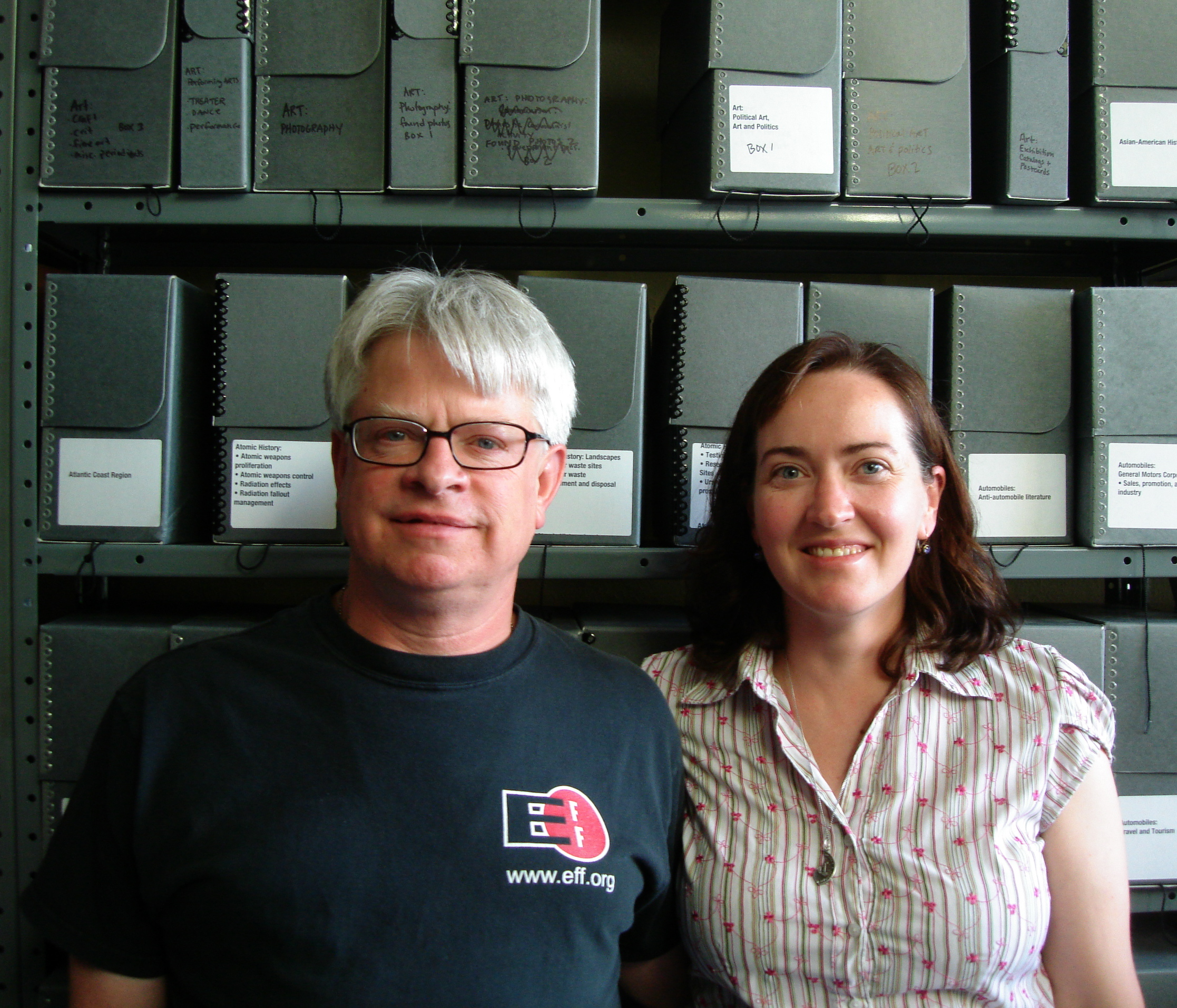 Rick Prelinger and Megan Shaw Prelinger, at the Prelinger Library in San Francisco.